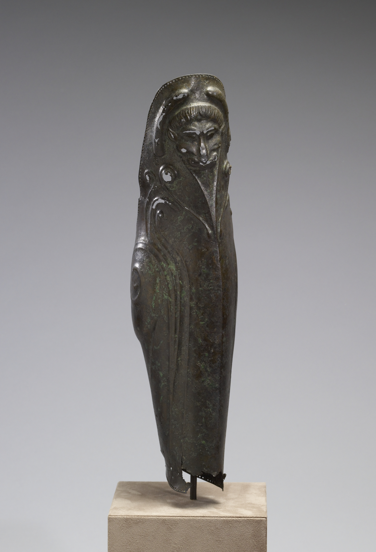 A greave is armor that protects the kneecap and lower leg. This example has elaborate decoration in repoussé (a technique in which metal is impressed from the rear to form a raised design), including the face of a lion over the knee and lines emphasizing the muscles of the calf on either side. Tiny holes lining the top and bottom edges secured a fabric lining and leather strips for attachment to the leg. This piece of bronze armor is an element of the hoplite's panoply, which also included a helmet, breastplate, shield, spear, and sword. The hoplite's armor signified the social status of its owner, who was required to furnish his weapons at his own expense. It also signaled a citizen's service to the community and would thus have been a source of pride to its owner (Snodgrass 1967 (1999), 58-9).